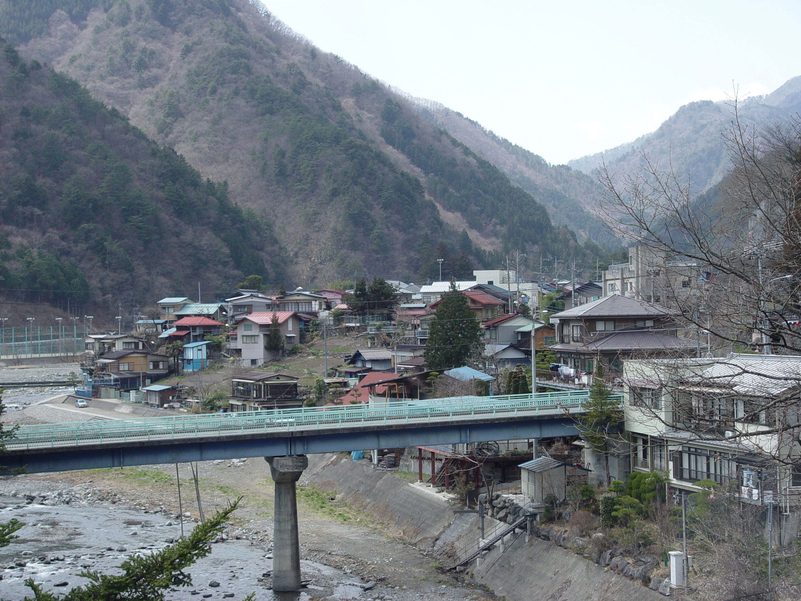 View of Tabayama Village, Yamanashi prefectural road route 18 ja: 丹波山村遠景、多摩川（丹波川）、山梨県道18号上野原丹波山線